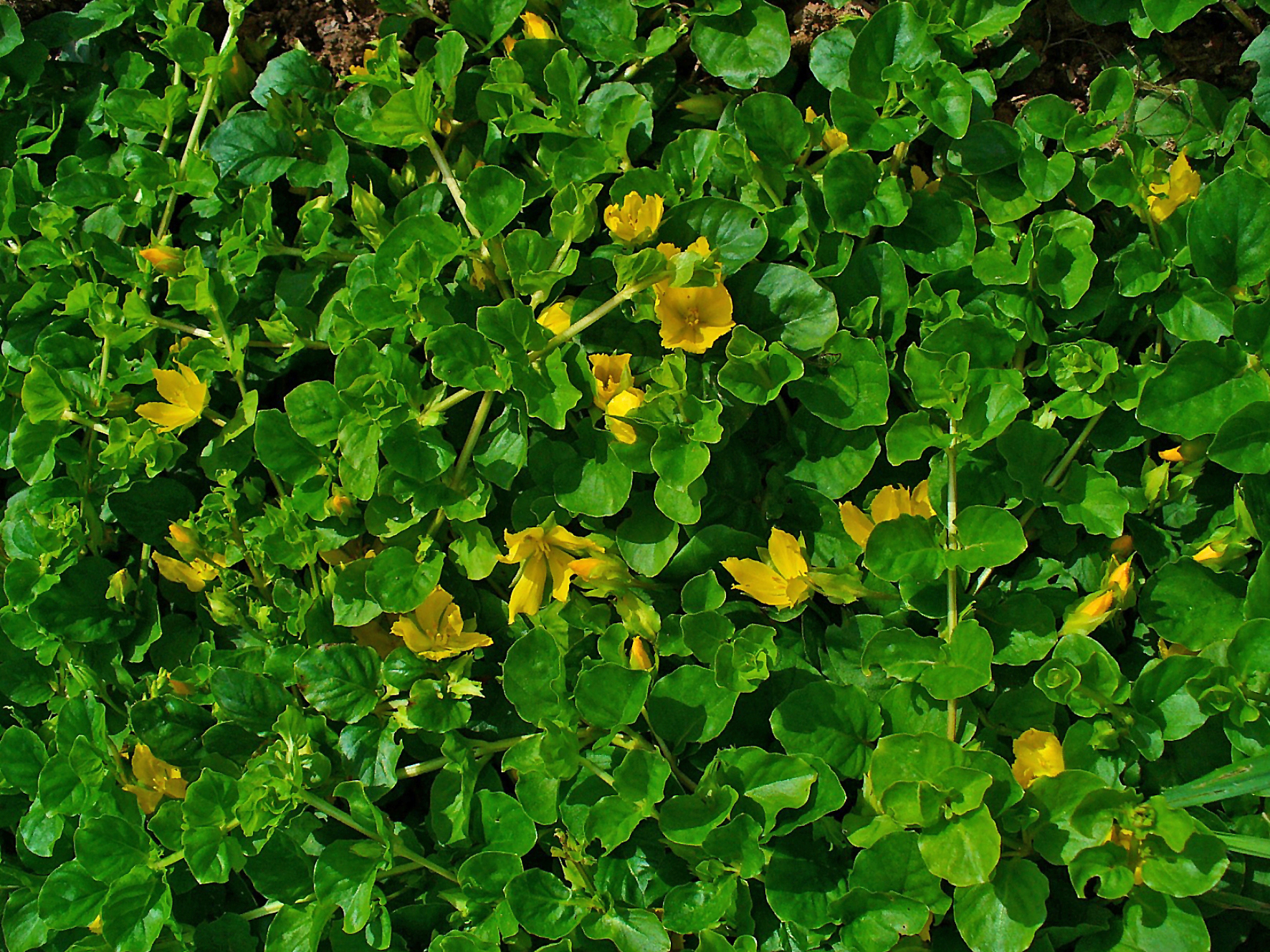 Lysimachia nummularia, Myrsinaceae, Creeping Jenny, Moneywort, Herb Twopence, Twopenny grass, habitus. The fresh, aerial parts collected at bloom are used in homeopathy as remedy: Lysimachia nummularia (Lysim.)